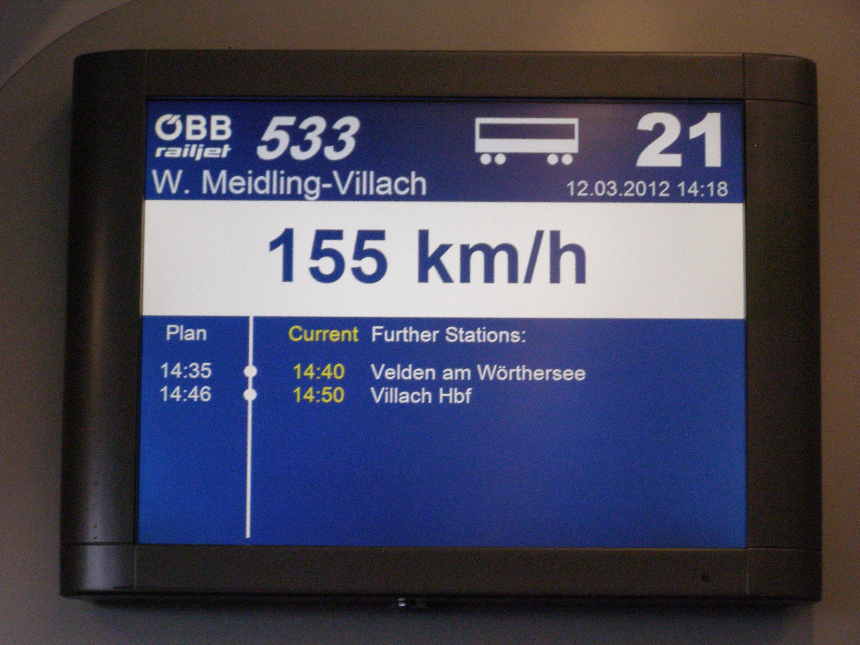 Display inside Railjet RJ 533 train from Wien Meidling to Villach Hbf.